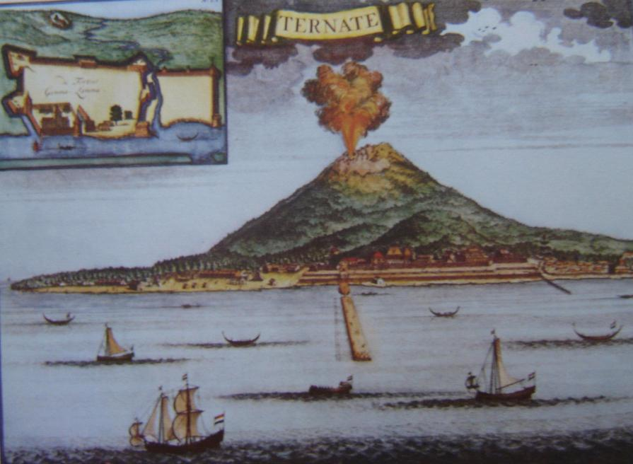 Original image from en Wikipedia: originaly portuguese Fort of Saint John Baptist of Ternate. 1720 drawing of Ternate by unknown, presumably Dutch, artist. Inset shows a Portuguese/Spanish-built fort on the island.